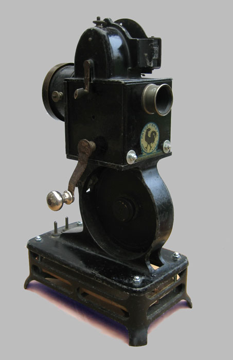 Pathe Baby movie projector for film format 9.5 mm Type B (45) - 1924